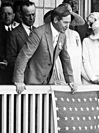 A. Harry Moore, US Senator from New Jersey and Governor of that state